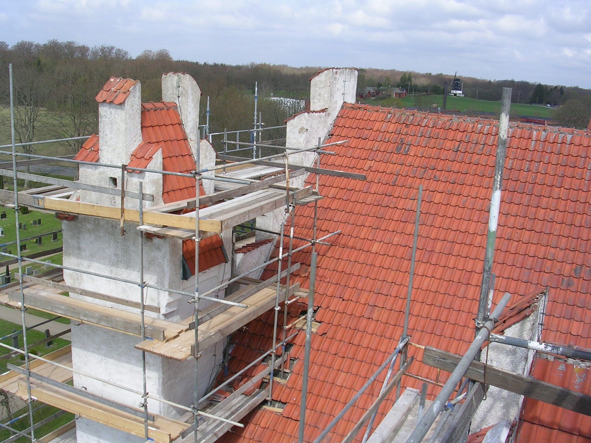 Roof of Sankt Olofs kyrka during restoration Author: Väsk Date: May 2005